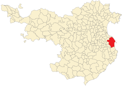 Torroella de Montgrí